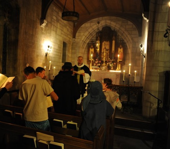 The Vigil of All Hallows held on All Hallows' Eve at St. George's Episcopal Church in Ardmore, Pennsylvania. This parish is part of the Anglican Communion, headed at the See of Canterbury. In this photograph, the Anglican minister is celebrating the liturgy. The photograph also contains a young boy, dressed in a Hallowe'en costume, which is traditionally worn in order to mock Satan, showing that evil has no power over the Christian Church.